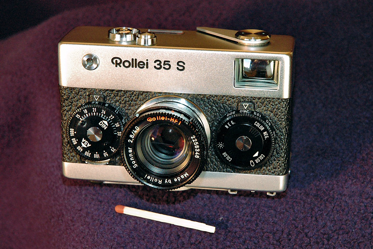 Rollei 35 S camera, front